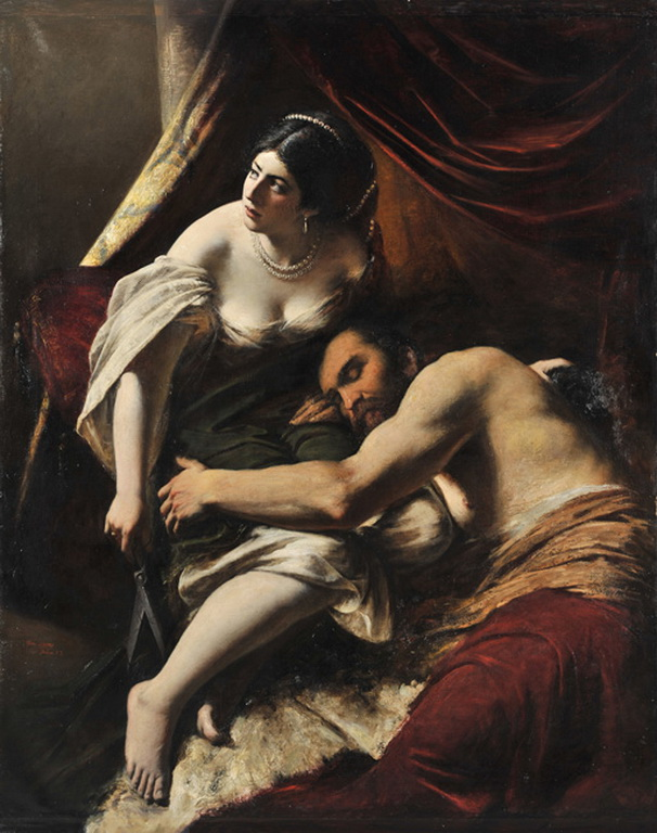 Samson and Delilah (1873)